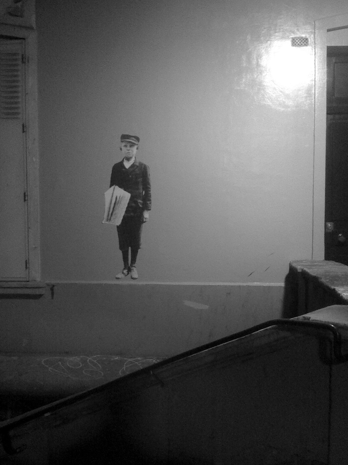 Leo & Pipo Street artist